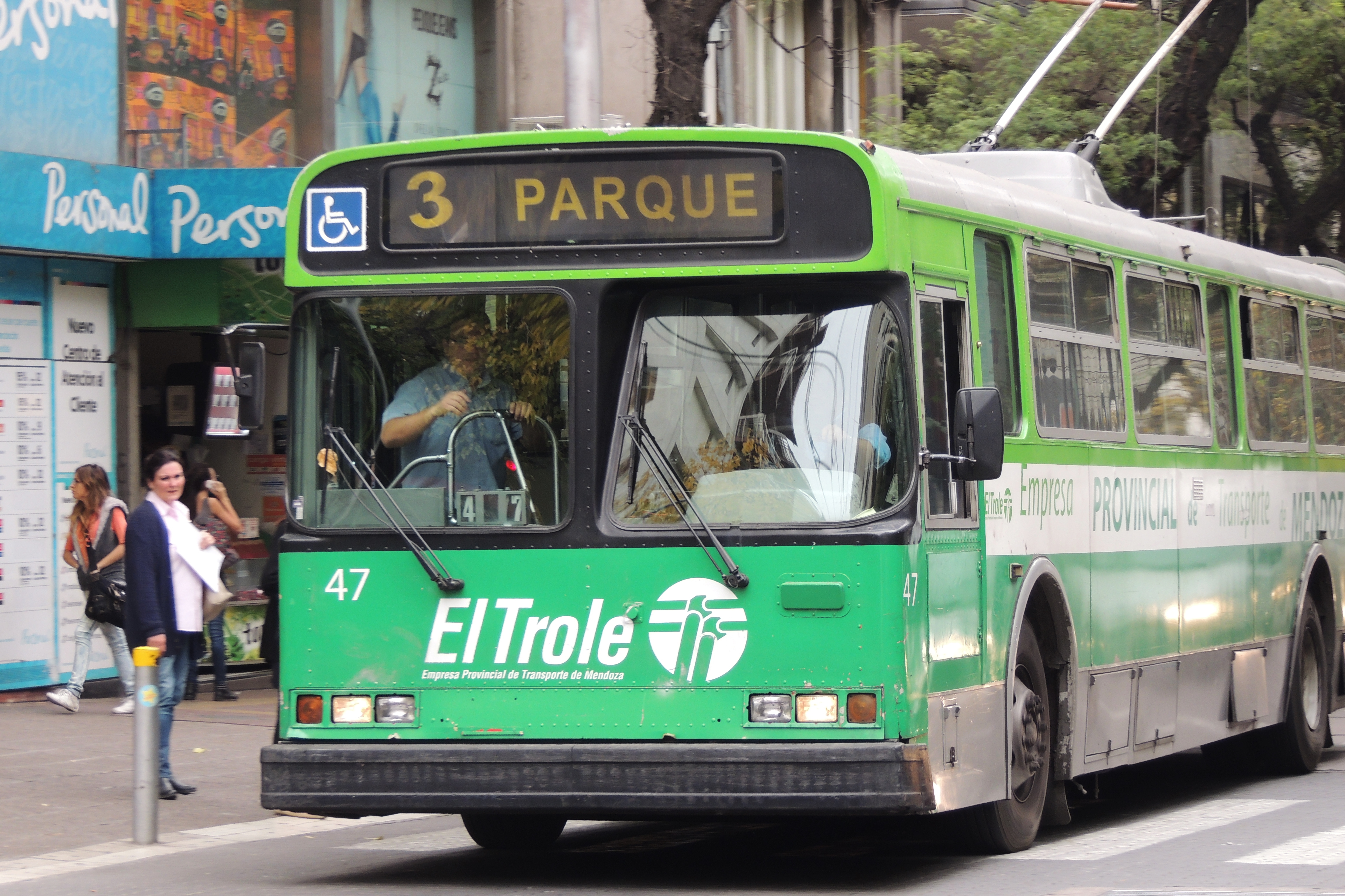 Trolleybus No. 47, in Mendoza, Argentina, is ex-Vancouver 2893, a 1983 Flyer E902 trolleybus acquired by Mendoza in 2008 and placed in service in Mendoza in 2010. In this 2014 photo, it is in service on the "Parque" route, which is route 1 (the "3" being displayed is wrong).